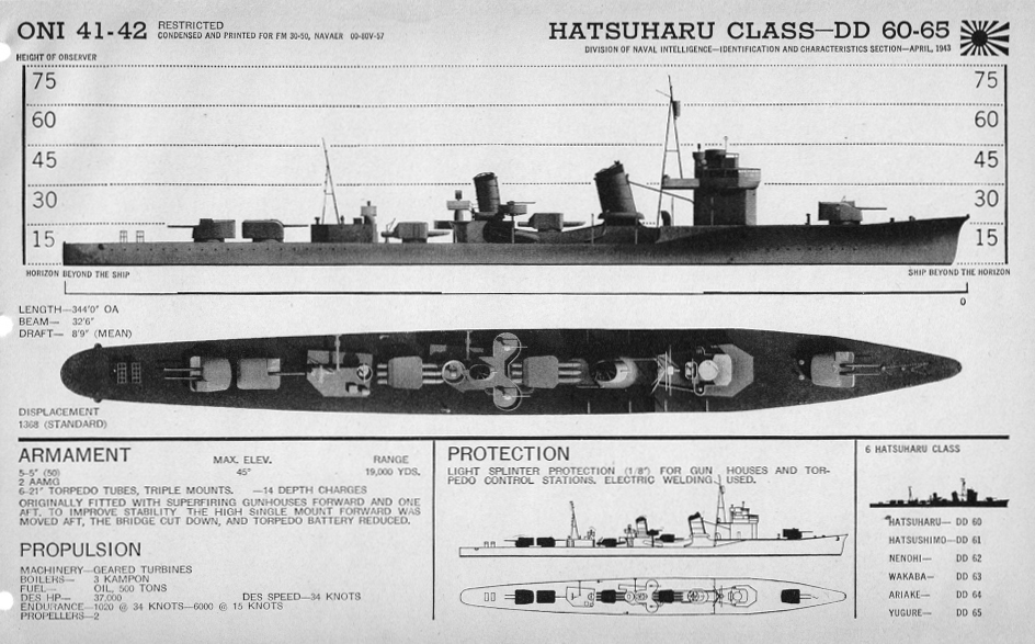 Hatsuharu class destroyer: profile, drawing and technical data. Scheme provided by ONI, US Navy, 1943